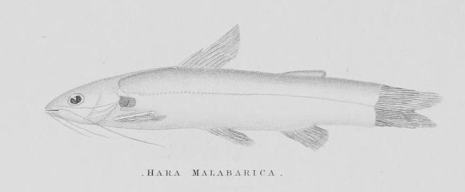 Mystus malabaricus syn. Hara malabarica